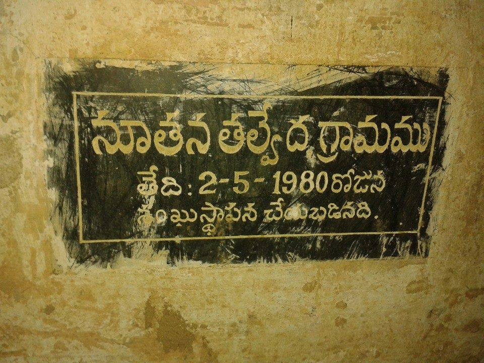 talveda